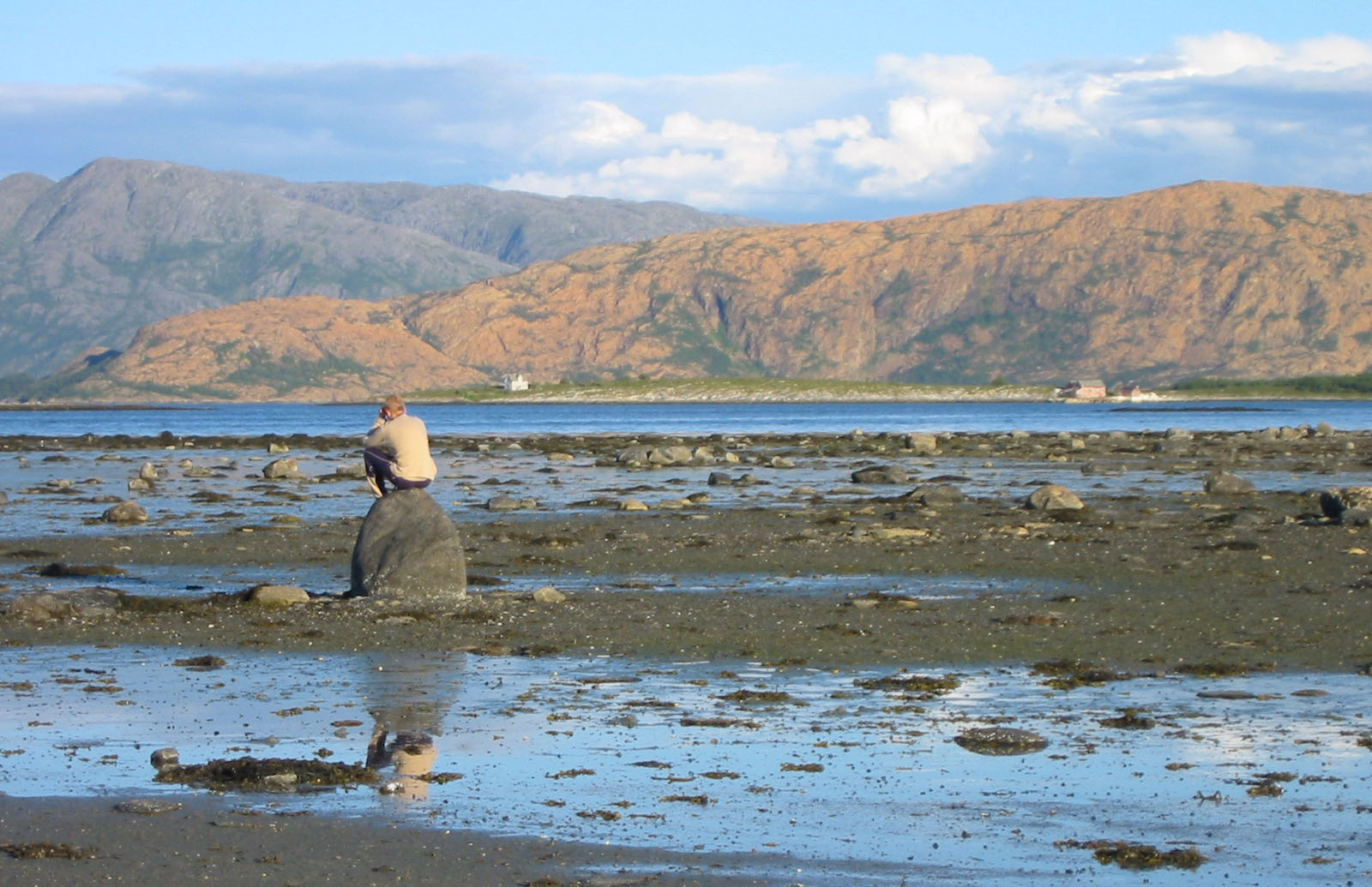 Picture of Rødøya. Taken from Offersøy. Alstahaug, Norway.